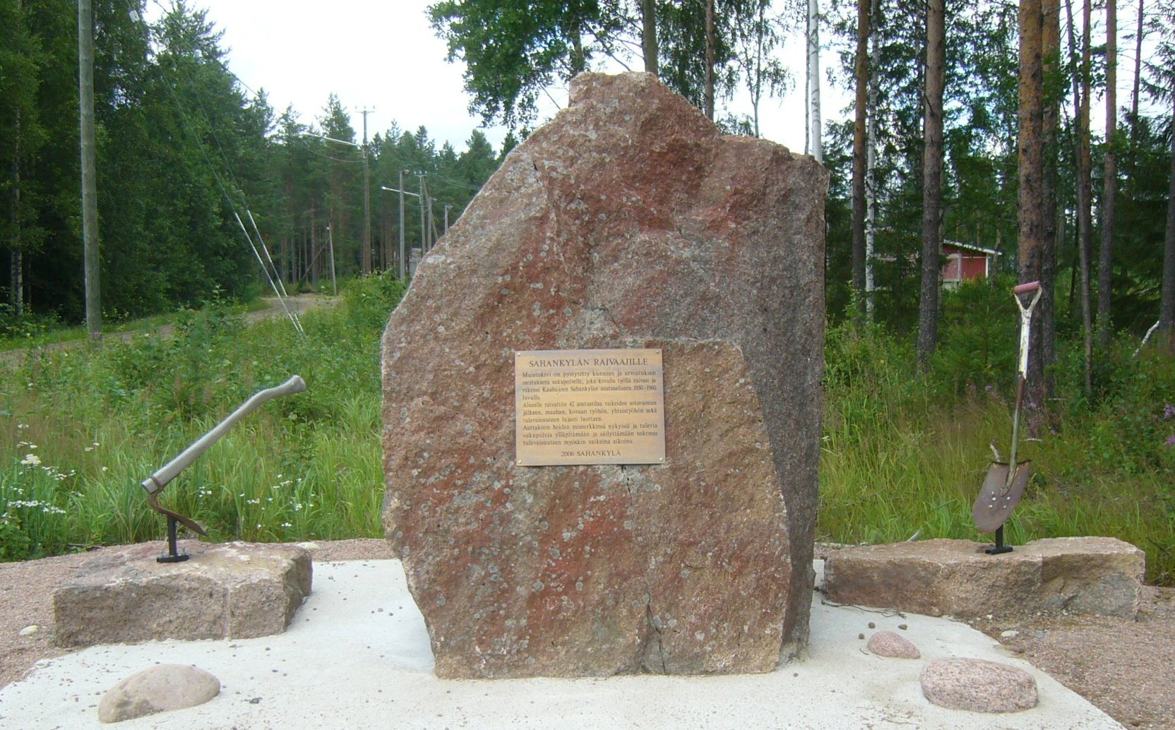 "Sahankylän raivaajille" monument in Sahankylä village, Kauhajoki, Finland.